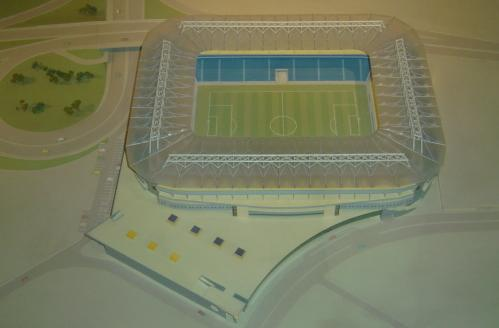 Maquette of Sukru Saracoglu Stadium (home of sports club Fenerbahçe)